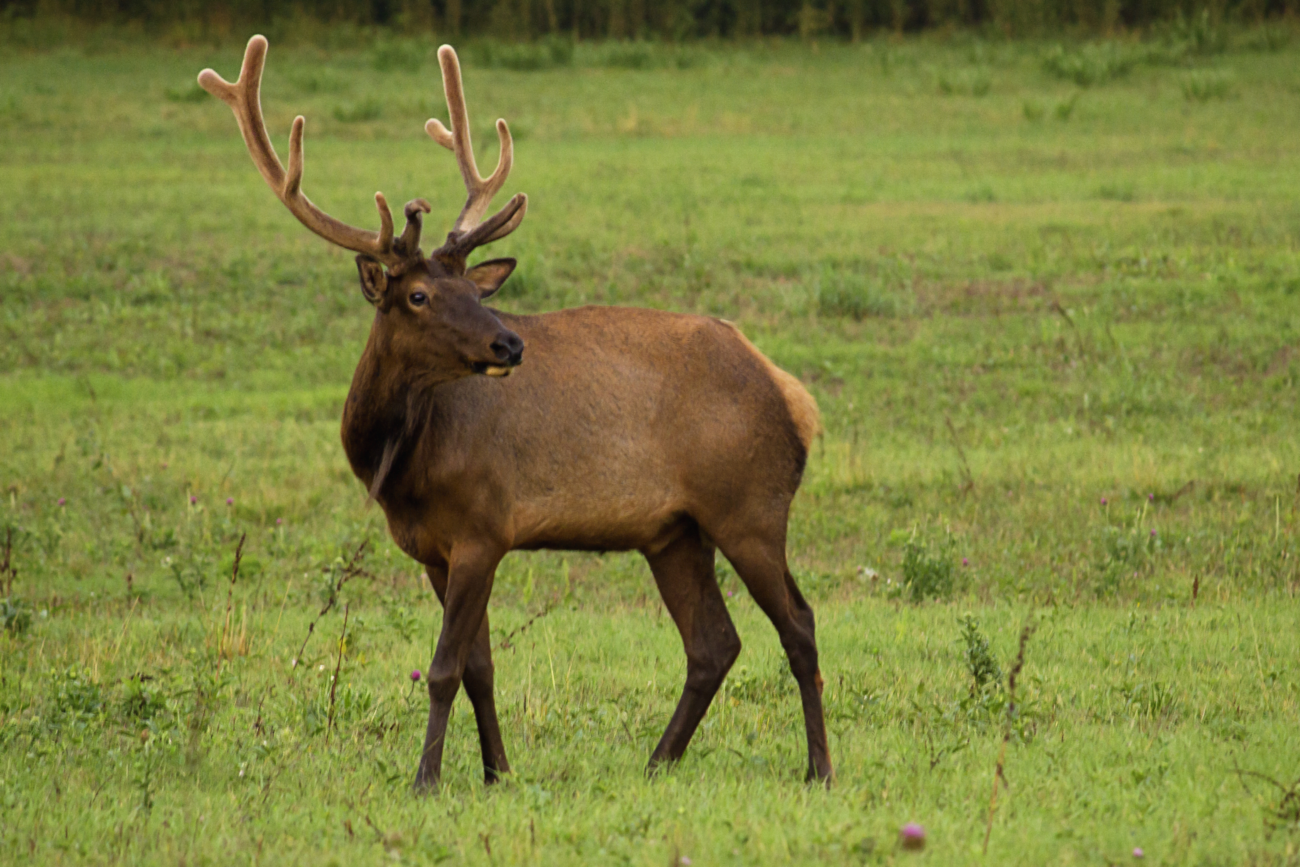 An elk in Boxley Valley, Newton County, AR